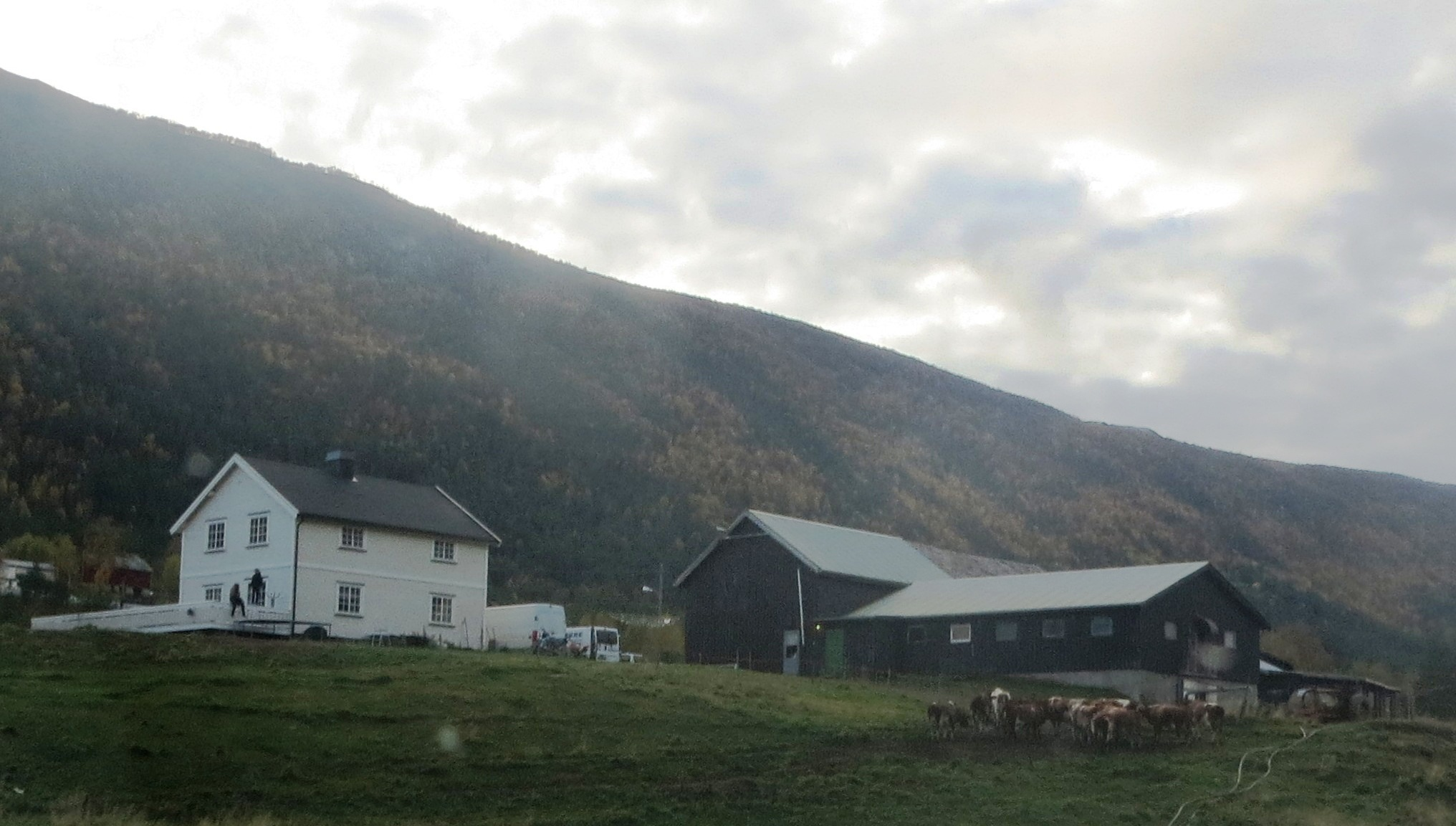 Dovreskogen settlement in Dovre municipality, Norway